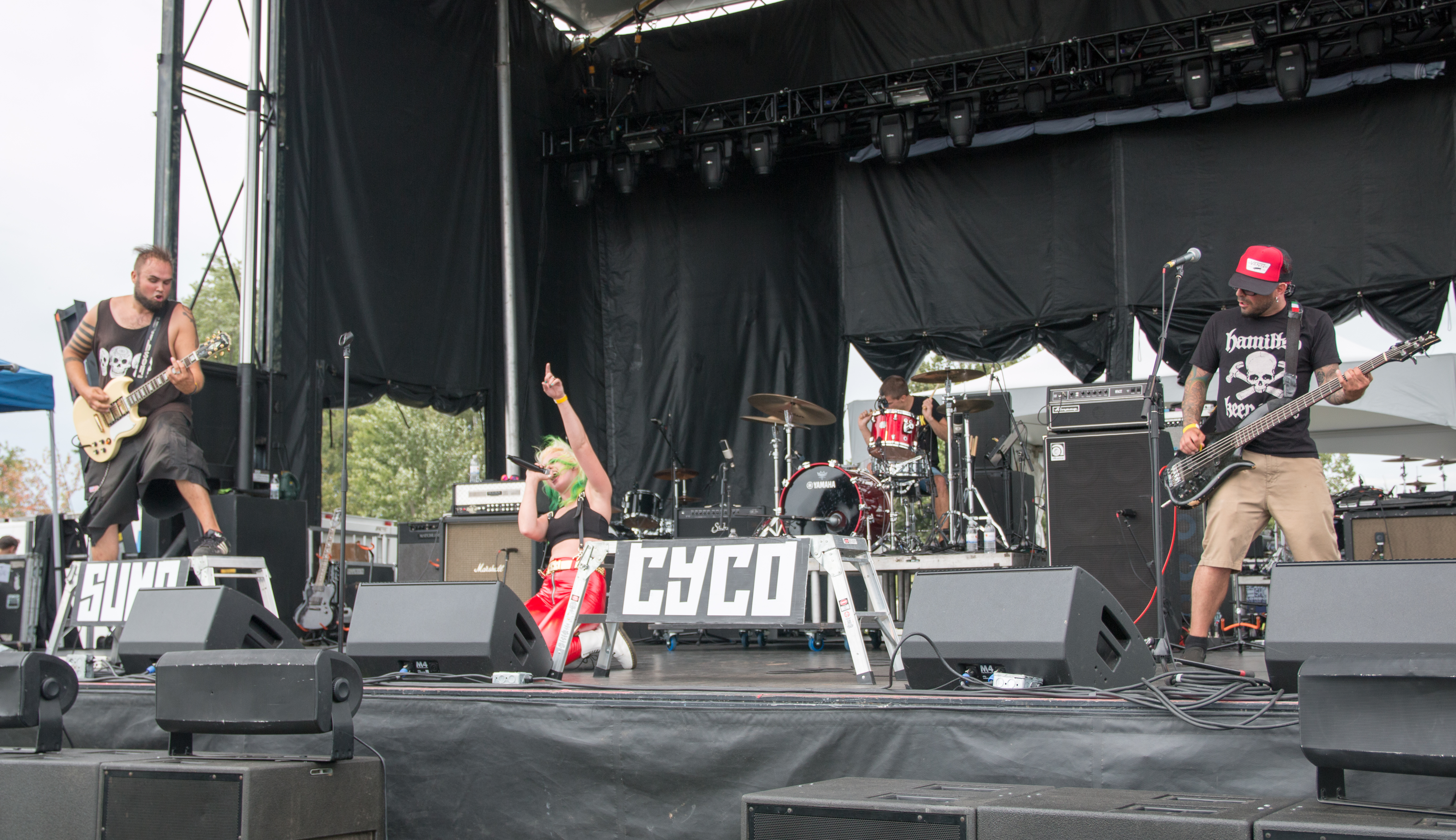 The band Sumo Cyco performing at the 2015 Festival of Friends in Ancaster, ON